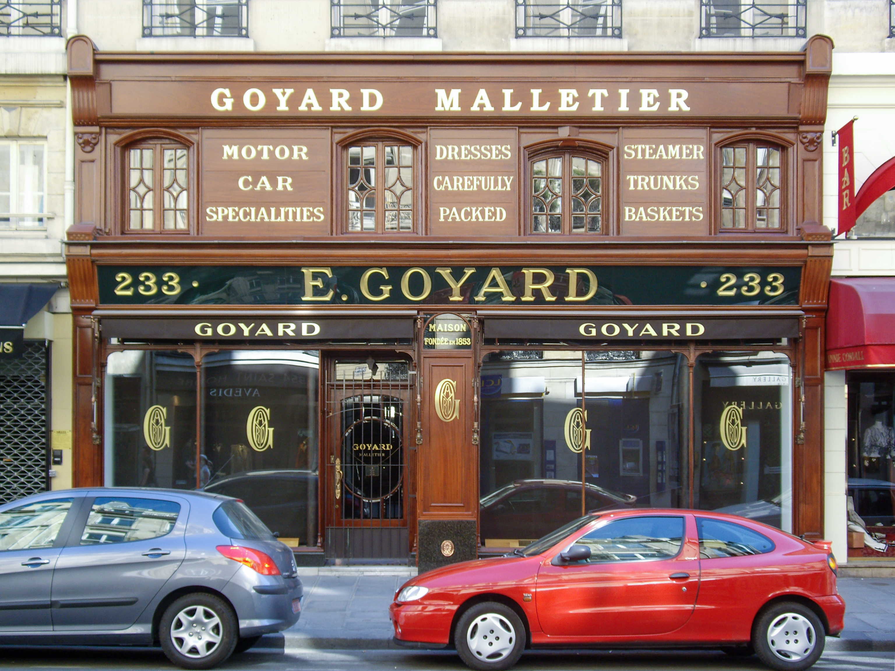 Goyard, luggage manufacturer, 233 rue Saint-Honoré, Paris 1st.